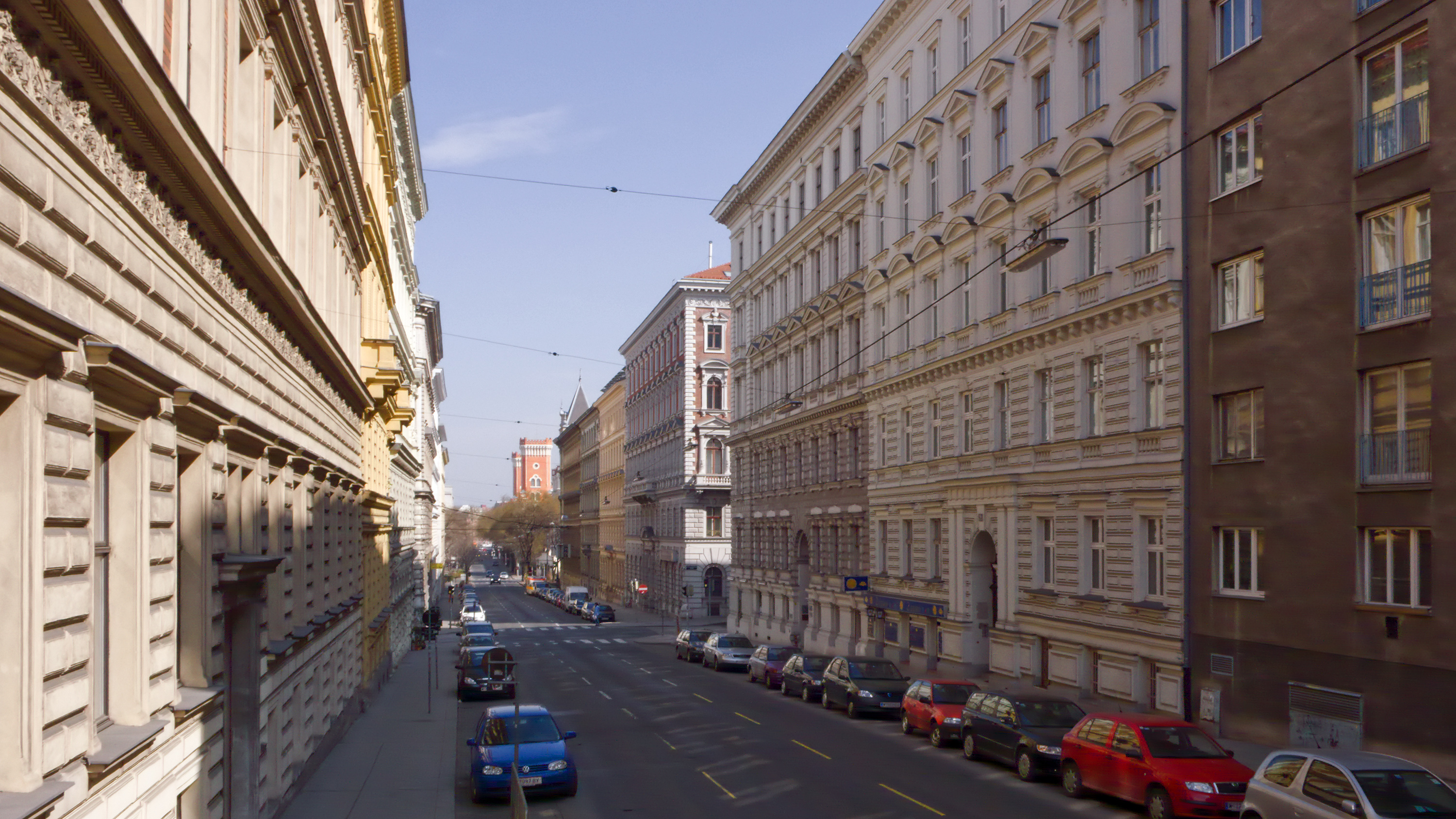 Hörlgasse in Vienna Alsergrund